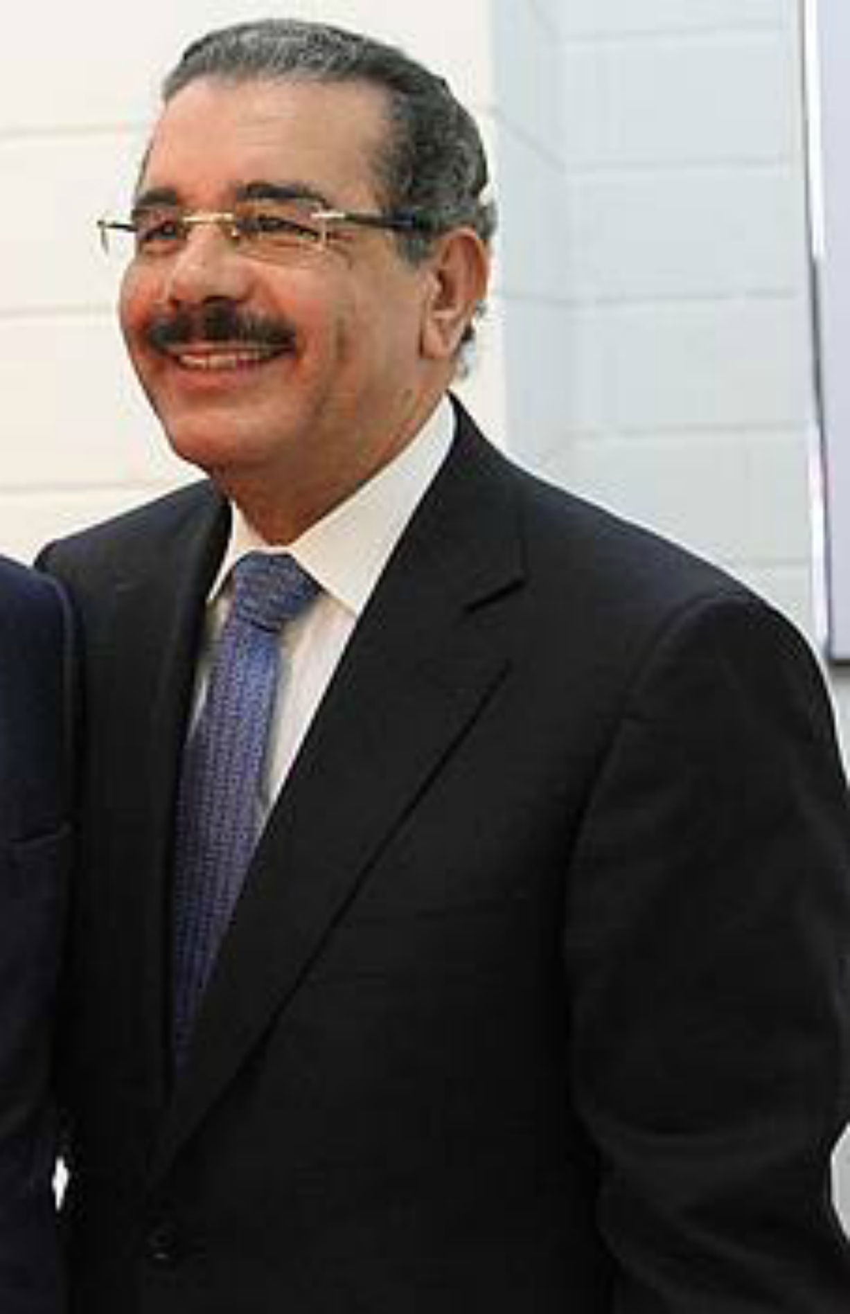 Danilo Medina Lula